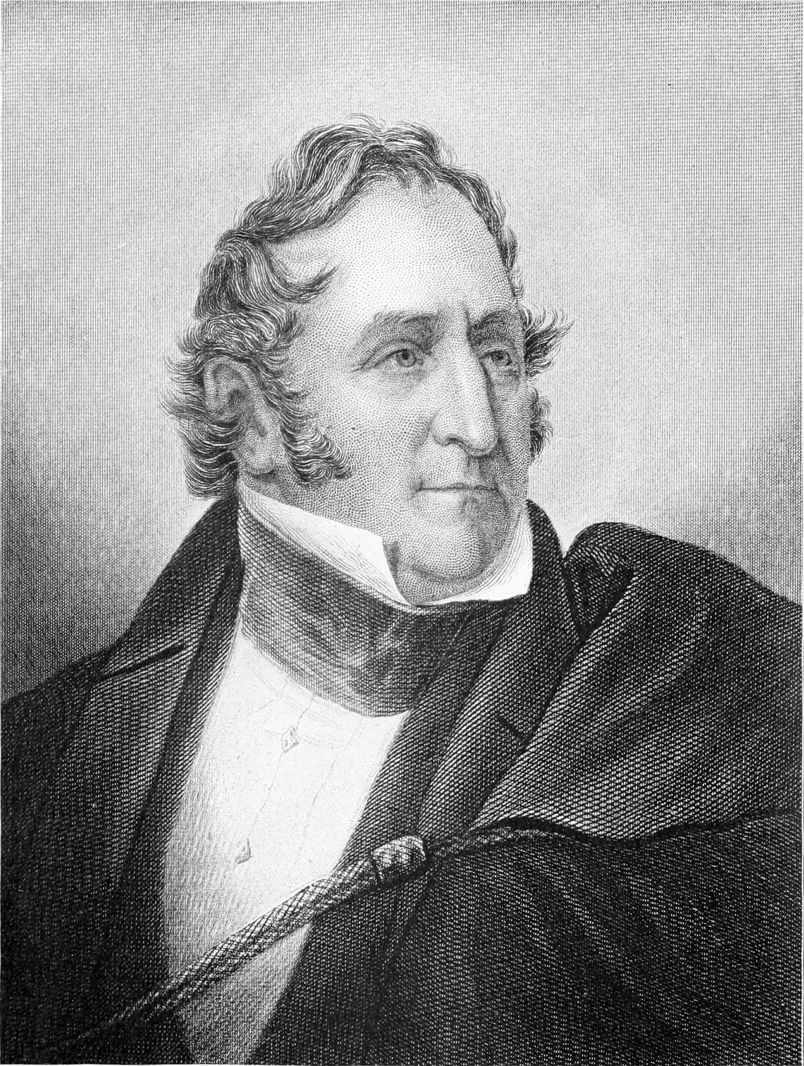 Engraved portrait of U.S. Senator from Missouri Thomas Hart Benton earlier in his career